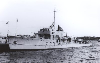 The Royal Norwegian Navy warship HNoMS Gyller after her conversion from destroyer to frigate.